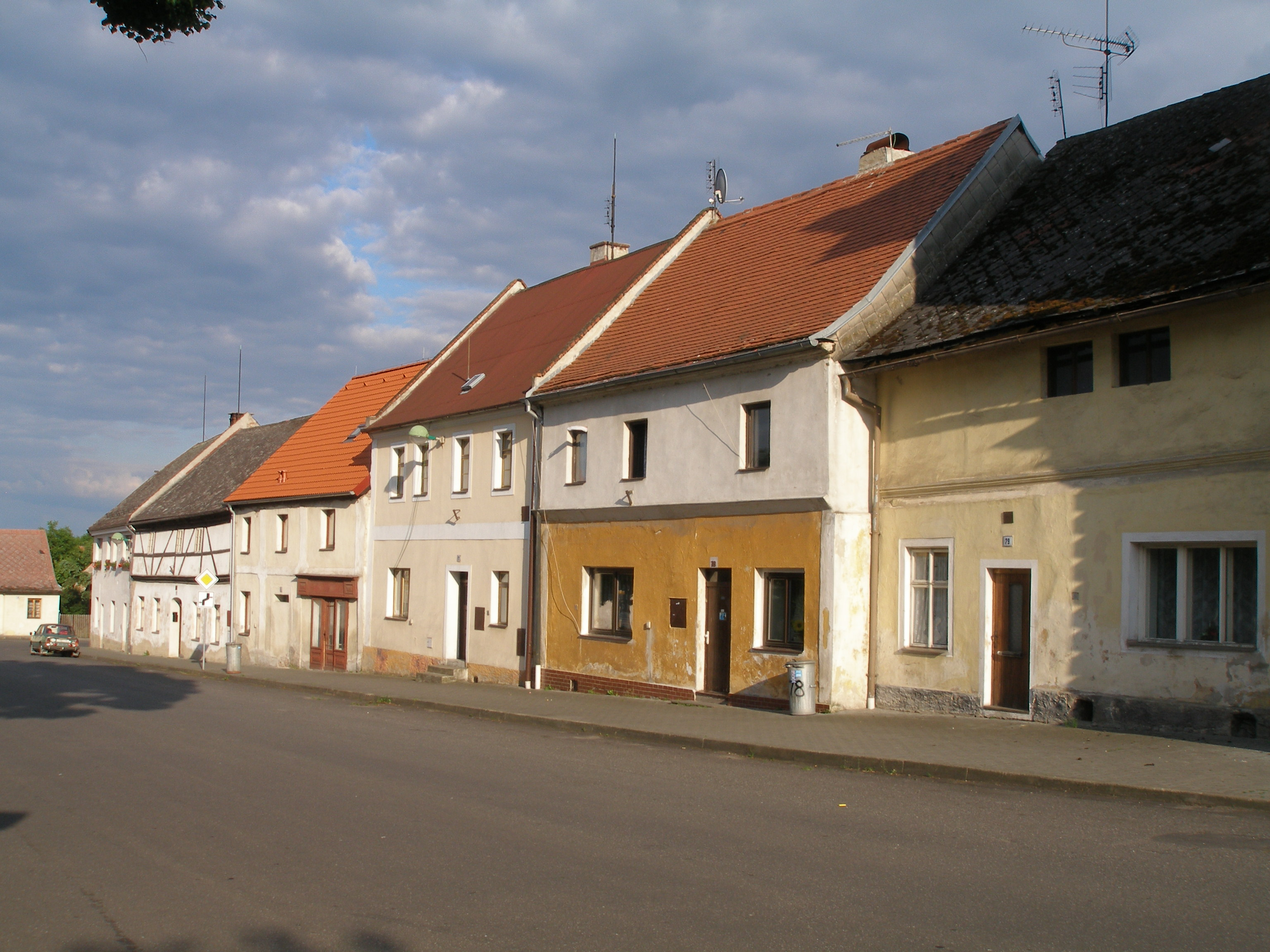 Mašťov - The Eastern part of the Southern side of the suare